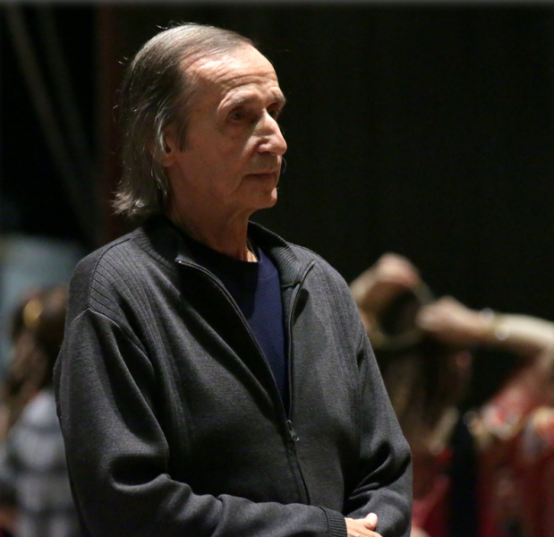 Yuri Vladimirov at a dress rehearsal of Ivan the Terrible at the Bolshoi theatre